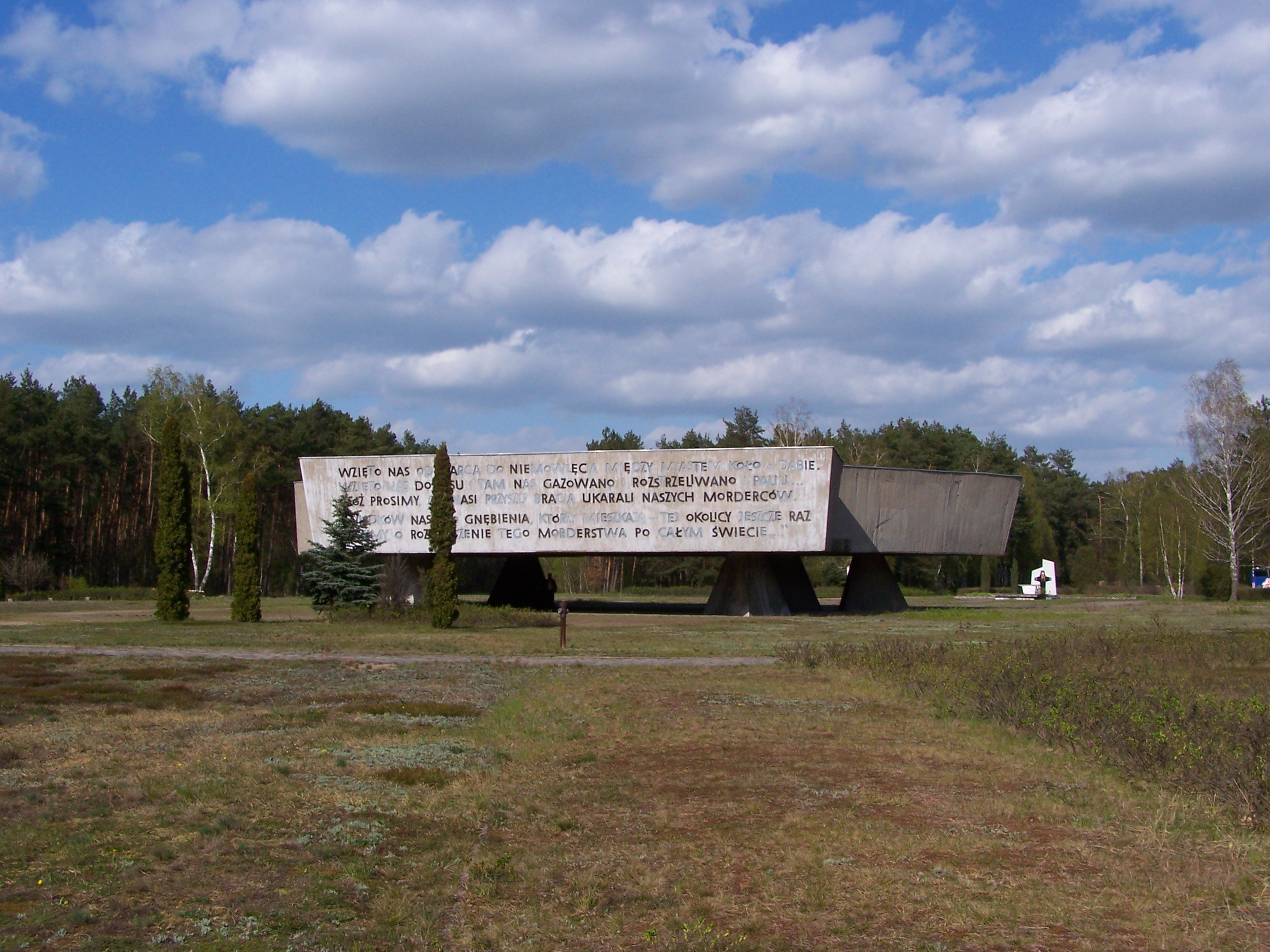 Chelmno Nazi extermination camp.